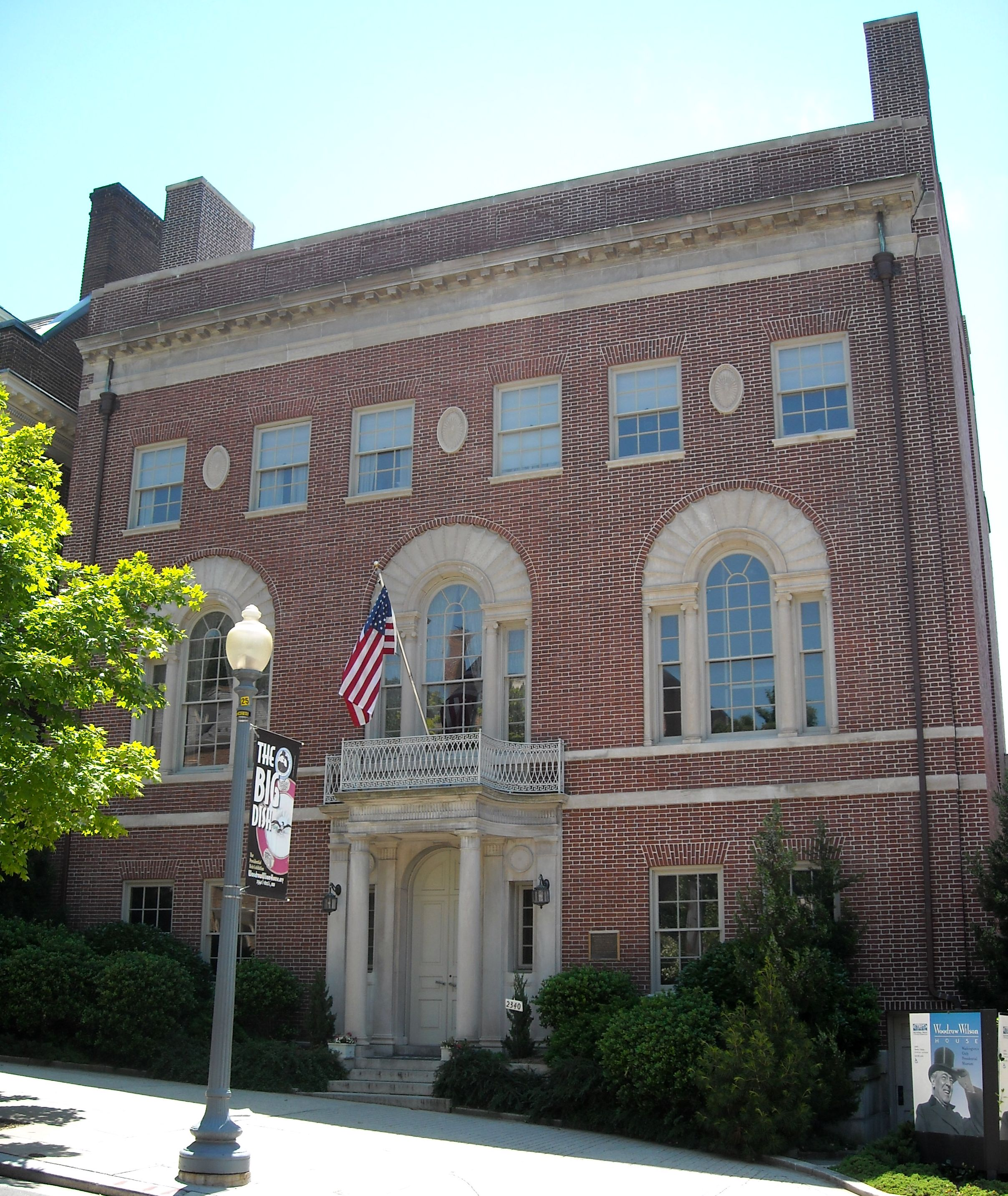 Woodrow Wilson House, a National Historic Landmark, in Washington, D.C.